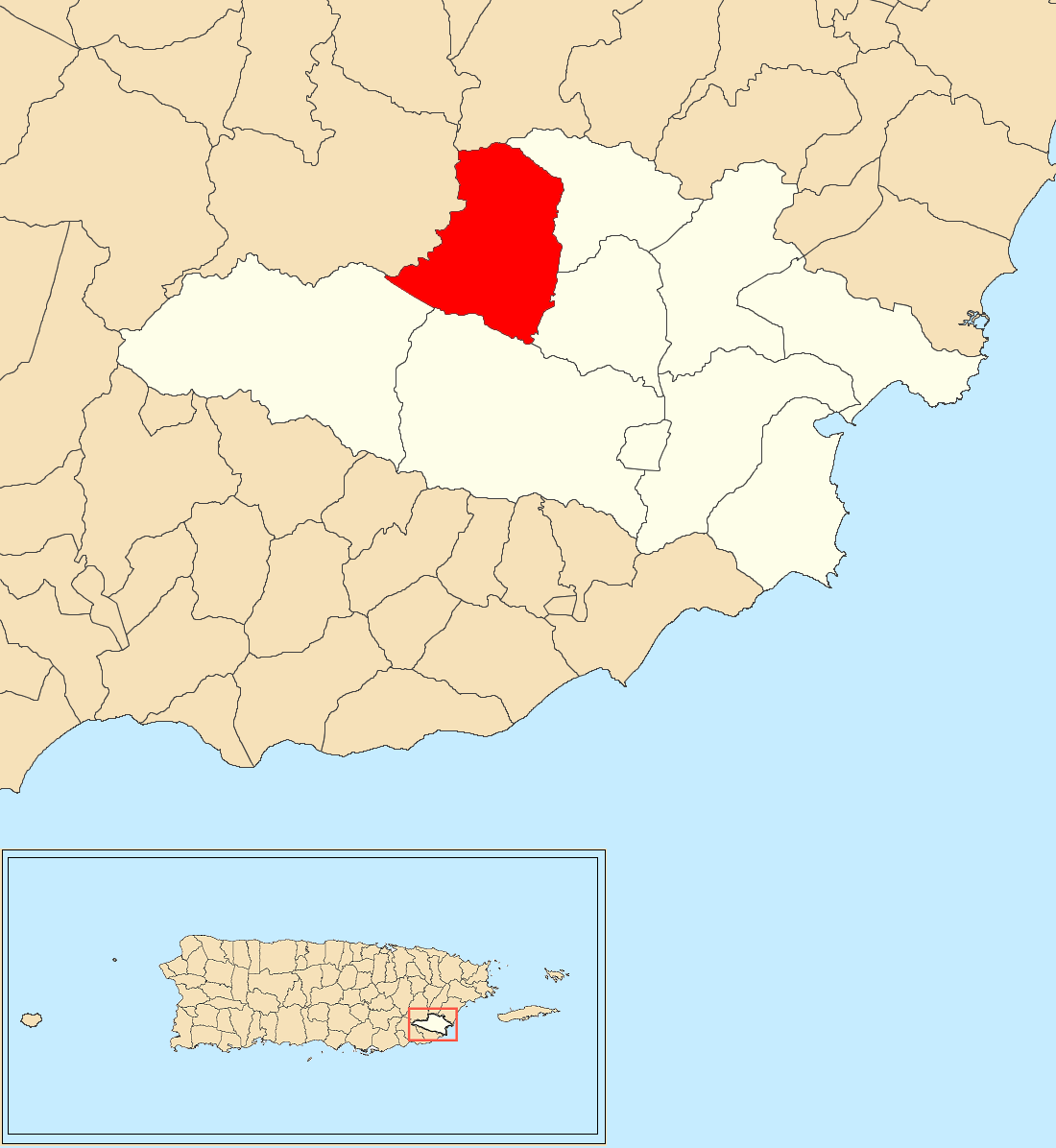 Jácanas, Yabucoa, Puerto Rico locator map